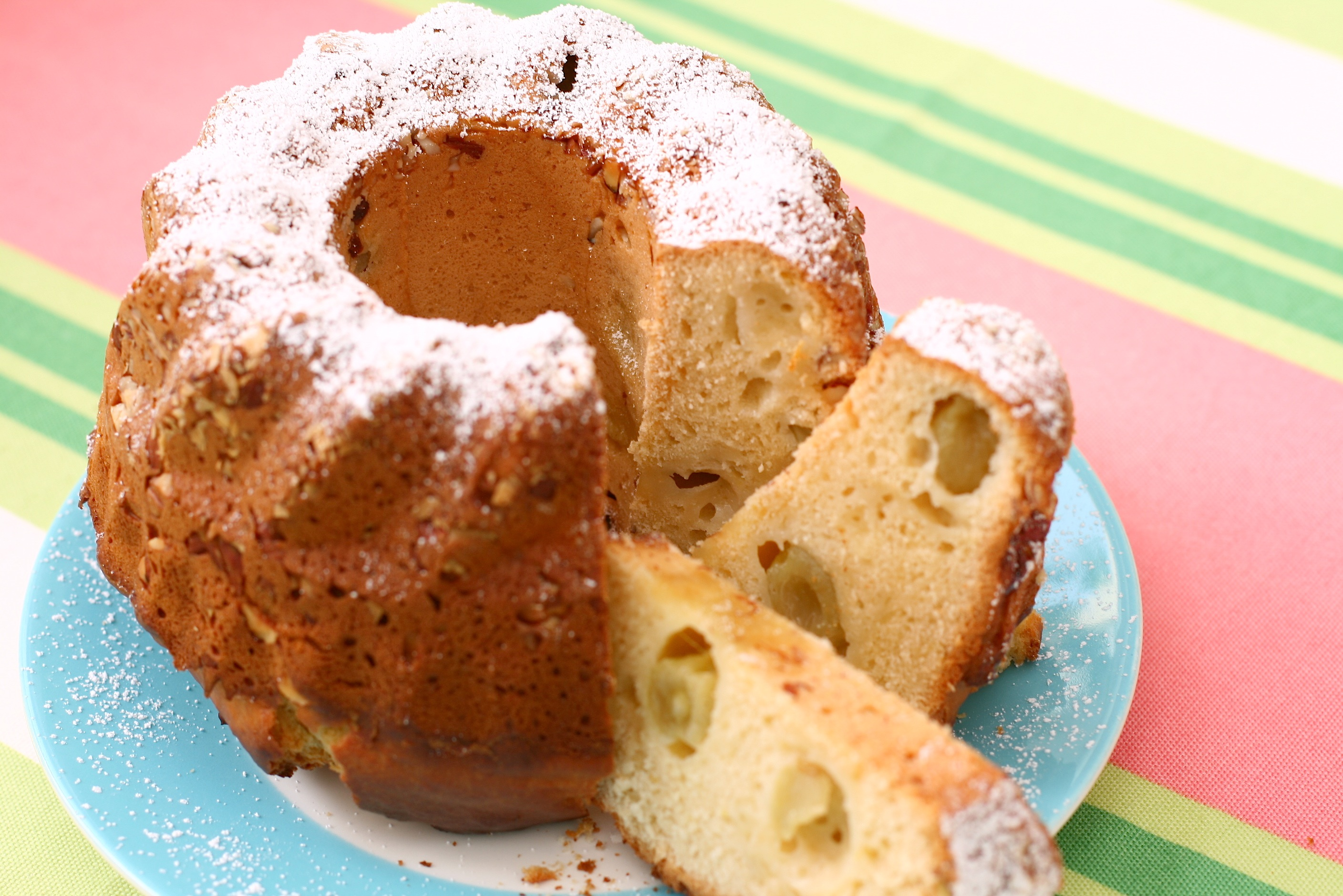 Bundt Cake with grapes